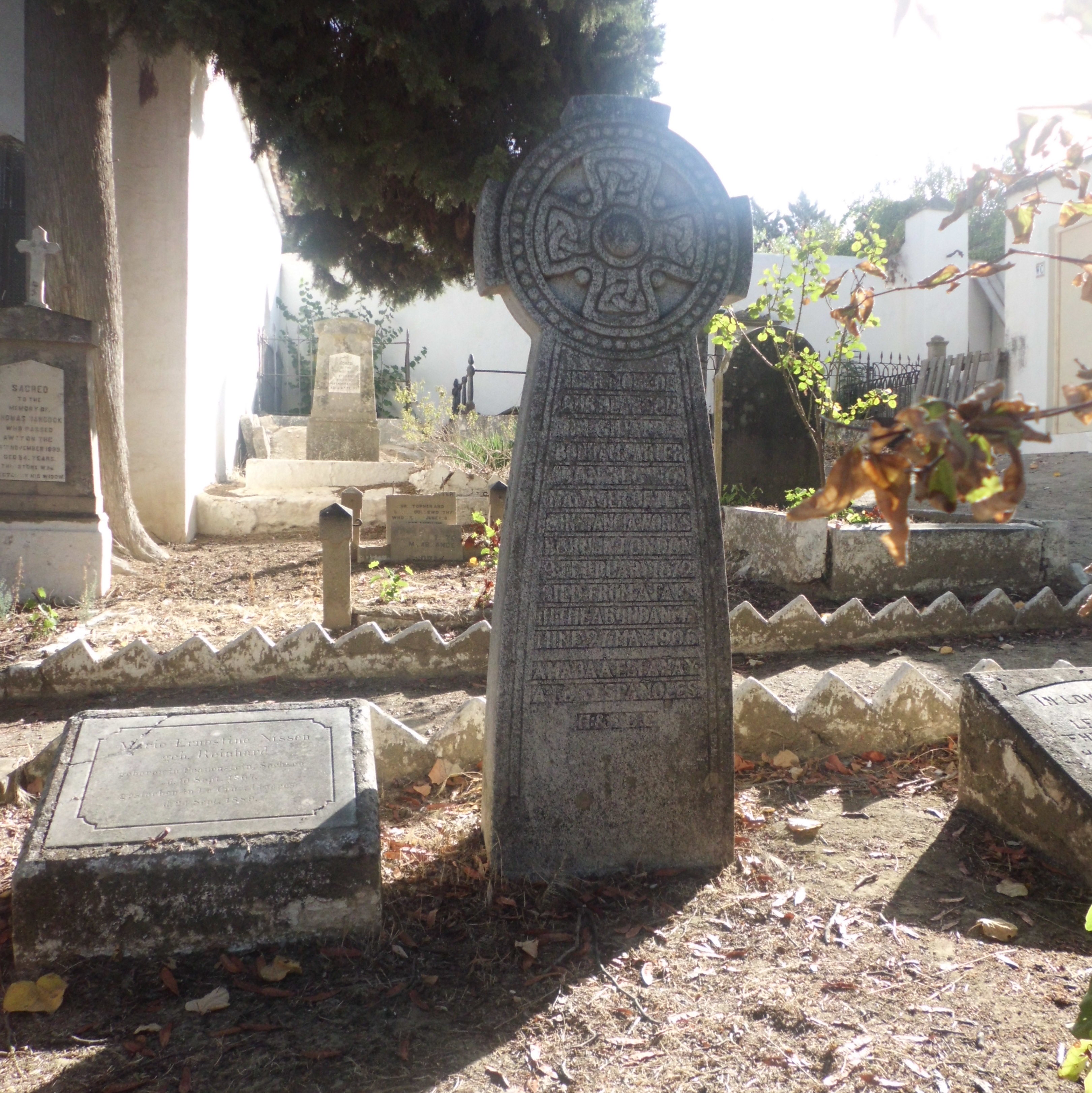 Fotografía de la tumba de Reginald Bonham Carter en el cementerio inglés de Linares (Jaén) que he tomado con mi cámara digital CASIO EXILIM (14.1 MP 26 mm) la mañana del 8 de octubre de 2016. Posteriormente, la he recortado y enderezado con Picasa 3.